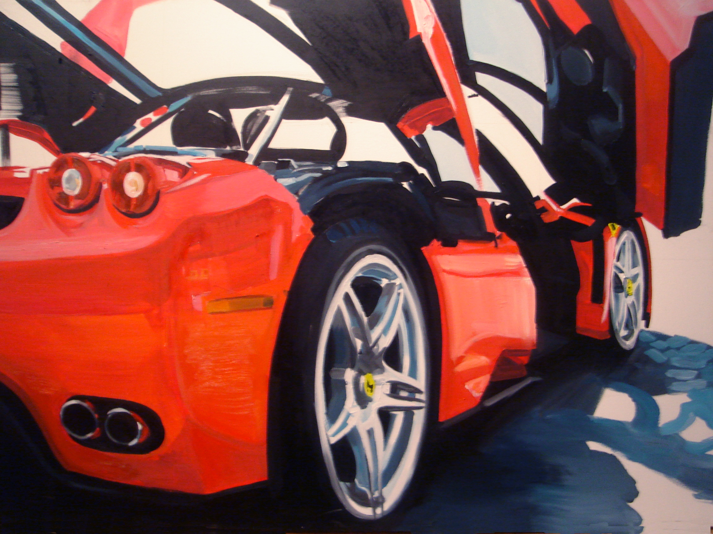 Picture about a Ferrari Enzo type